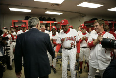 President George W. Bush shakes the hand of veteran player and Manager Frank Robinson Thursday, April 14, 2005, as members of the Washington Nationals, including left fielder Brad Wilkerson, right, applaud. The President tossed the ceremonial first pitch at the season opener that marked the return of baseball to the nation's capitol.